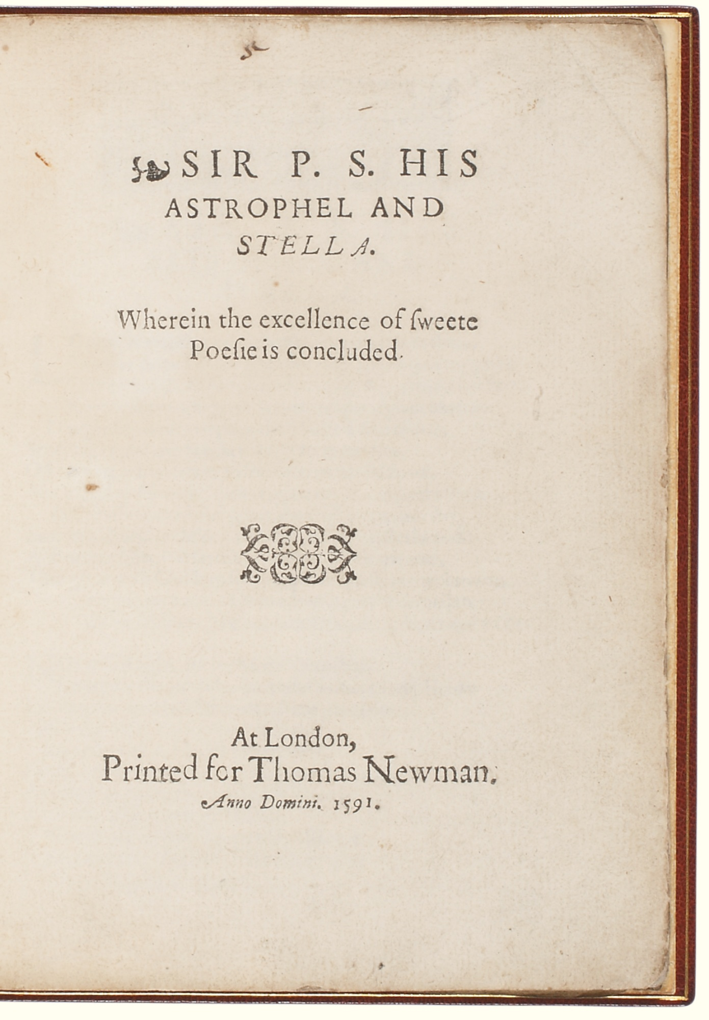 The title page of Sir Philip Sidney's Astrophel and Stella, from the 1591 edition. While the edition at the Folger is the 1591 2nd edition, the title page may be a later facsimile to replace a missing page.